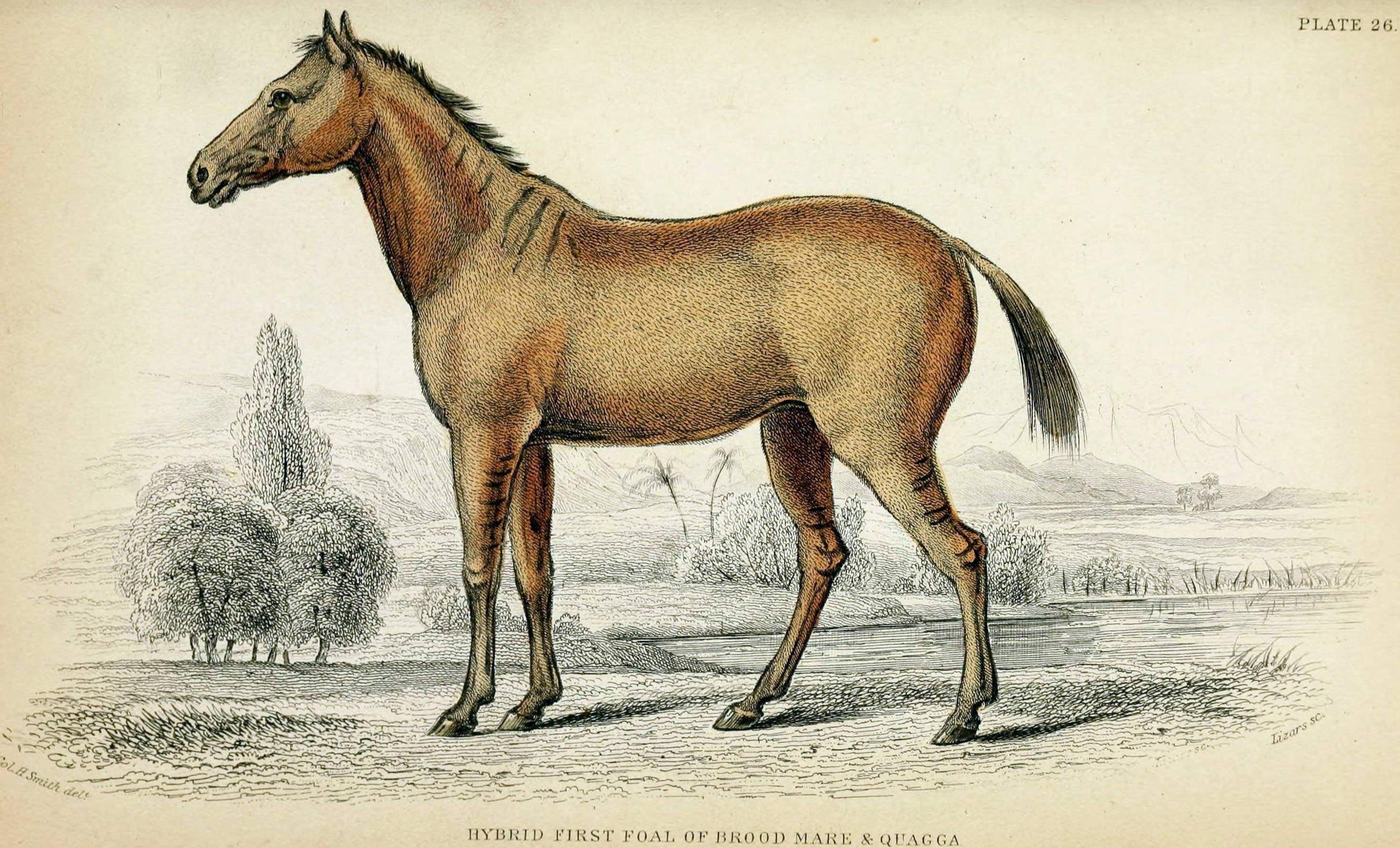 Hybrid first foal of brood mare and quagga.